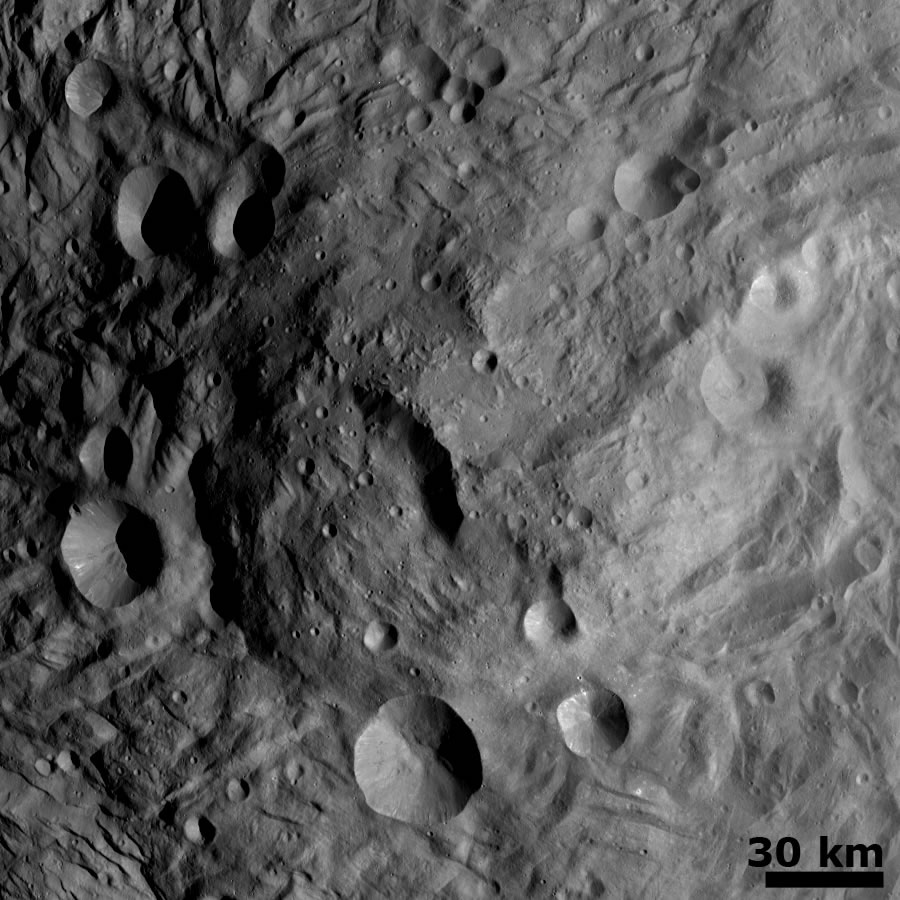 NASA’s Dawn spacecraft obtained this image -- of a central mound in a large structure at the south pole -- with its framing camera on August 12, 2011. This image was taken through the camera’s clear filter. The image has a resolution of about 260 meters per pixel. The Dawn mission to Vesta and Ceres is managed by the Jet Propulsion Laboratory, for NASA's Science Mission Directorate, Washington, D.C. It is a project of the Discovery Program managed by NASA's Marshall Space Flight Center, Huntsville, Ala. UCLA, is responsible for overall Dawn mission science. Orbital Sciences Corporation of Dulles, Va., designed and built the Dawn spacecraft.